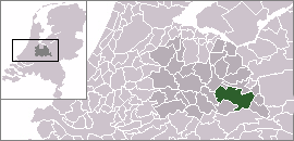 Location of Dutch municipality Utrechtse Heuvelrug in 2006. Made by me (Mtcv), PD.